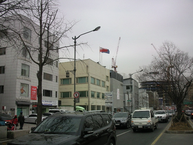 Embassy of Poland in Seoul, ROK